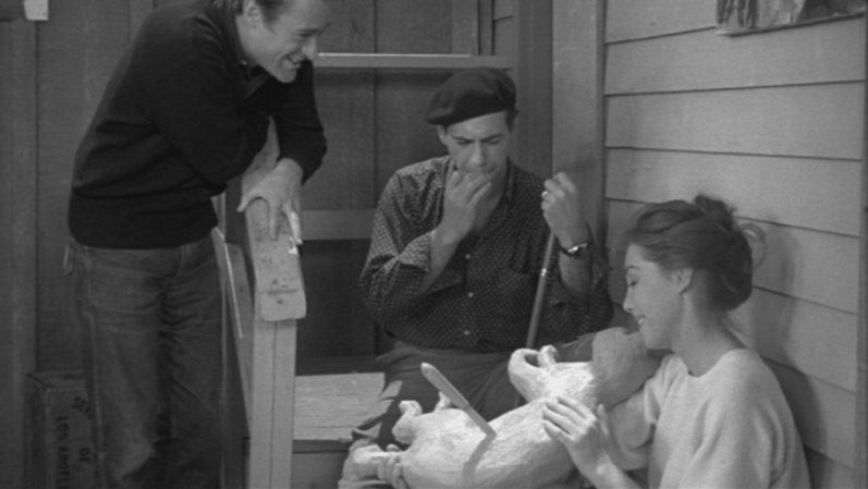 A scene from the public domain film A Bucket of Blood.